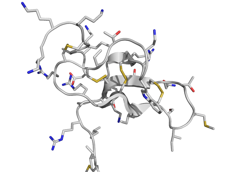 Created myself using PyMol